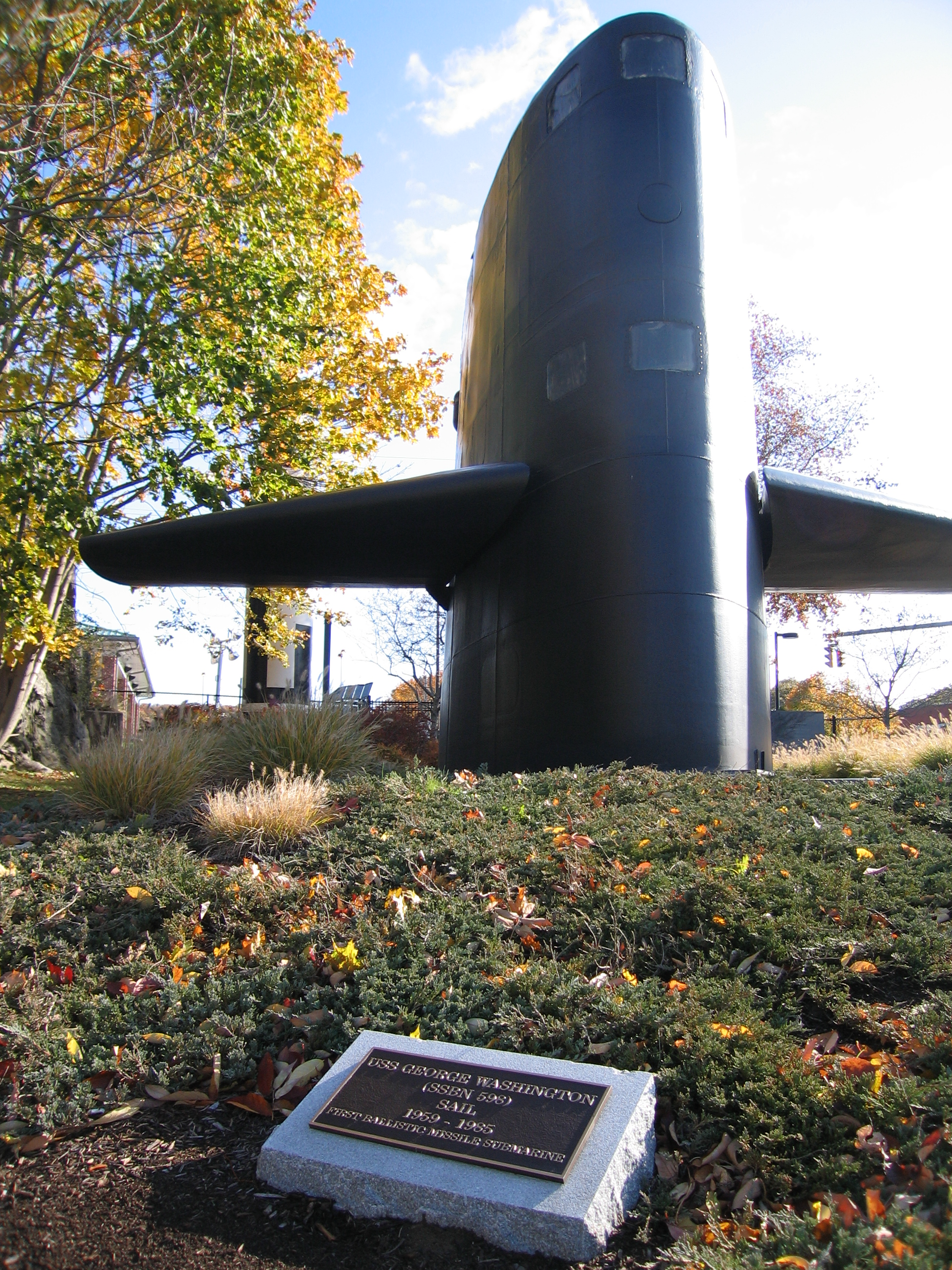 Sail of the USS George Washington (SSBN 598) on display outside the Submarine Force Library and Museum, Groton, CT. Technically, this was the USS George Washington's sail, however after the collision with the Nissho Maru, the damaged sail was removed and replaced with the sail of the USS Abraham Lincoln SSBN 602 which was getting ready for inactivation at the Puget Sound Naval Shipyard.